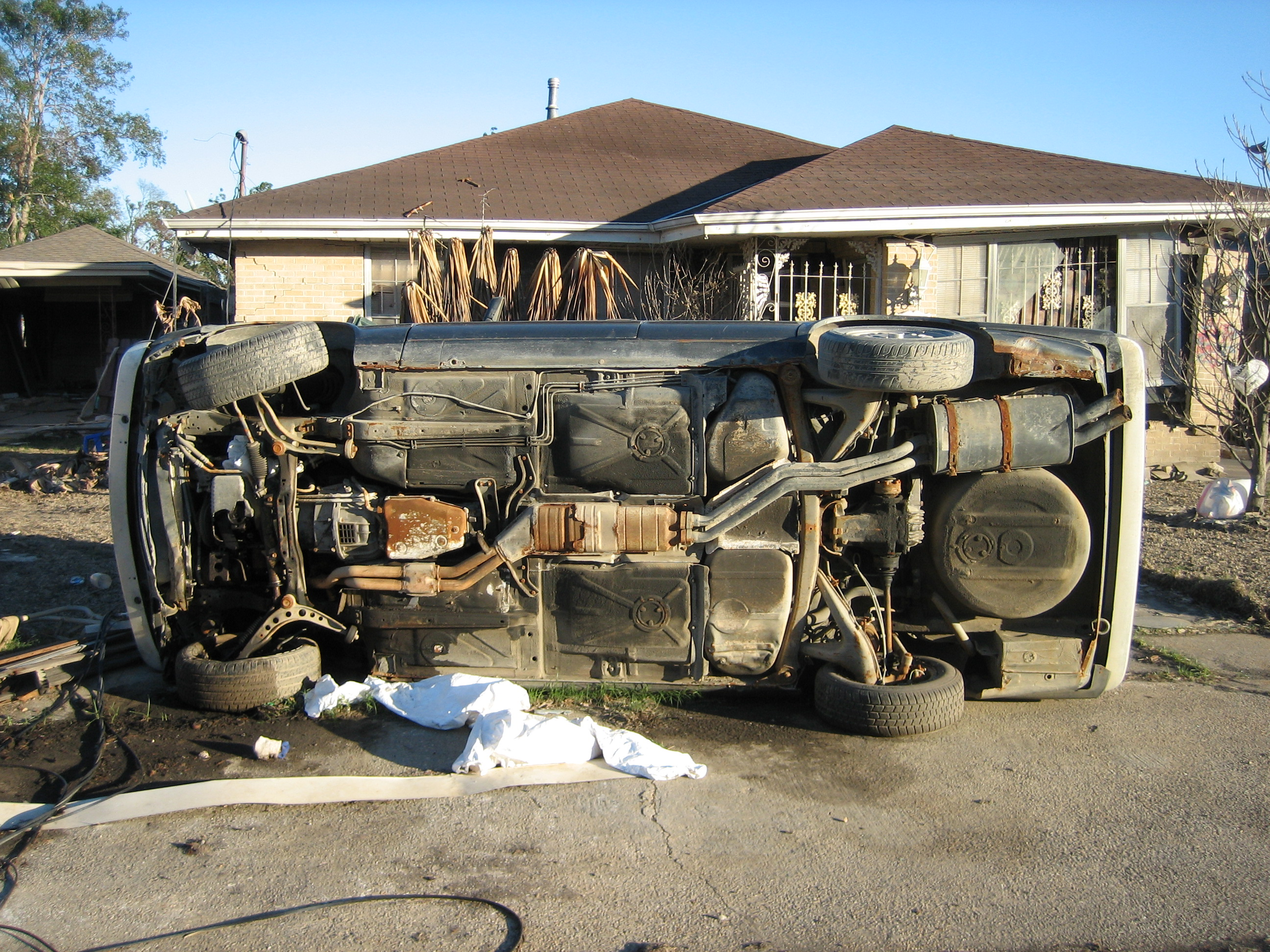 Arabi, Louisiana: in a neighborhood devastaed by storm-surge from Hurricane Katrina, a BMW lies on its side outside a flood damaged house. Photo by Infrogmation 18:00, 19 November 2005 (UTC).